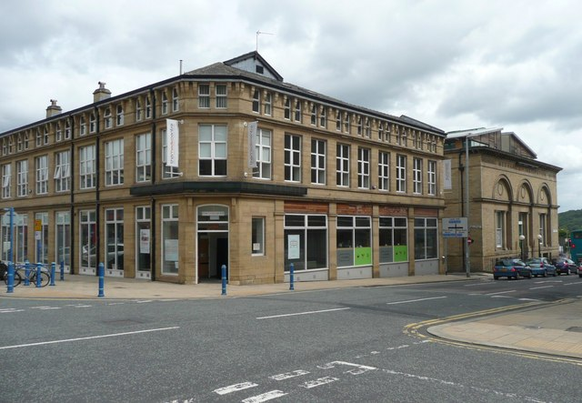 Media centre - old buildings, Northumberland Street, Huddersfield The one on the right was the 'Mechanics Institution', built in 1859.